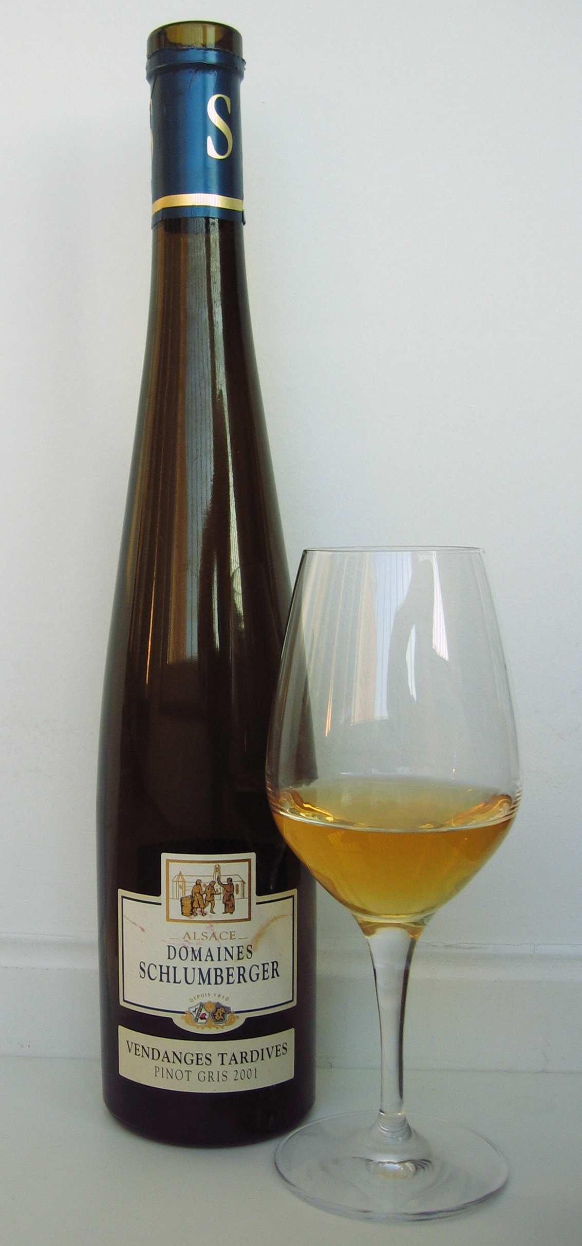 Domaines Schlumberger Pinot Gris Vendanges Tardives 2001, a late harvest wine from Alsace